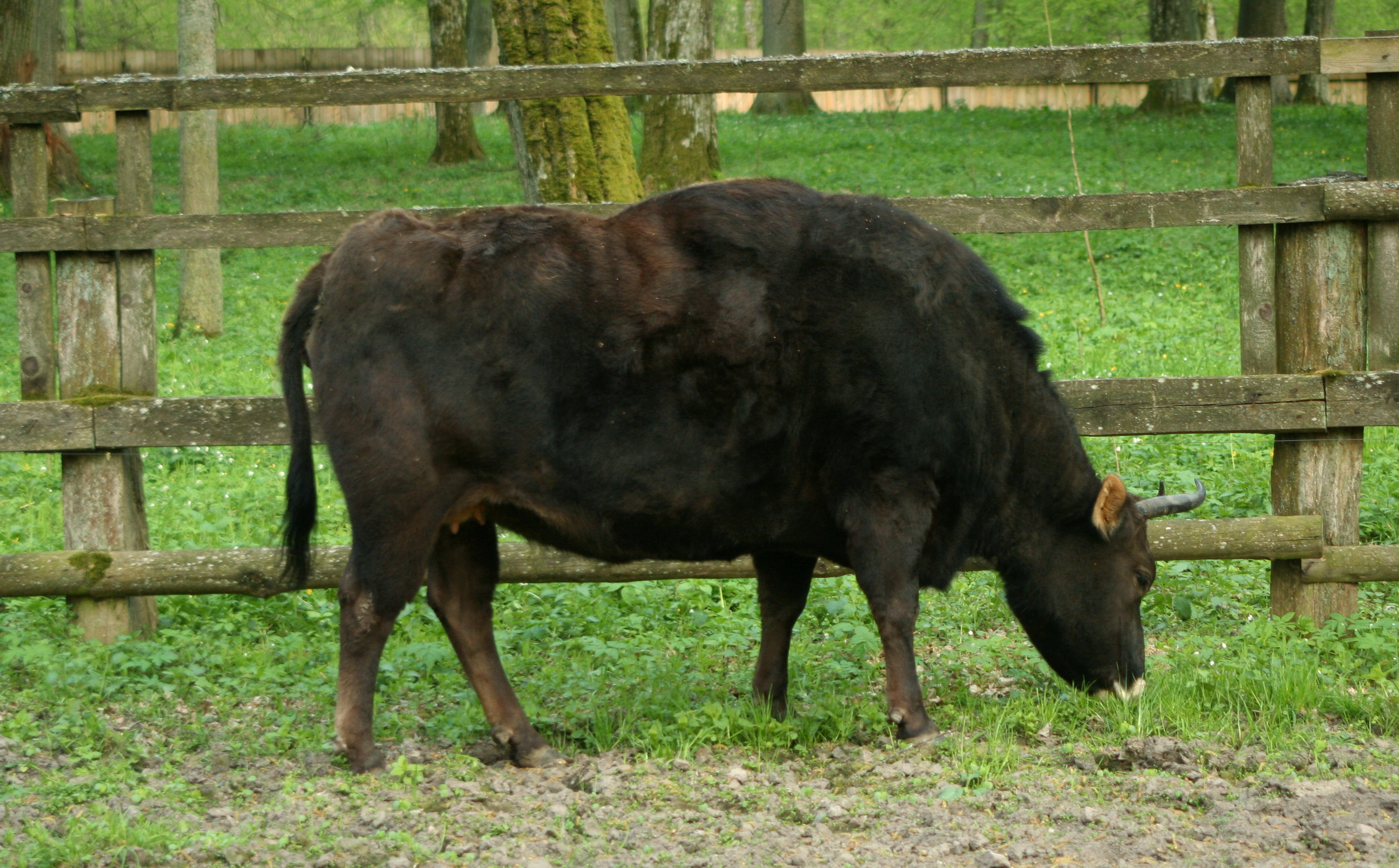 Żubroń or Zubron in Białowieża